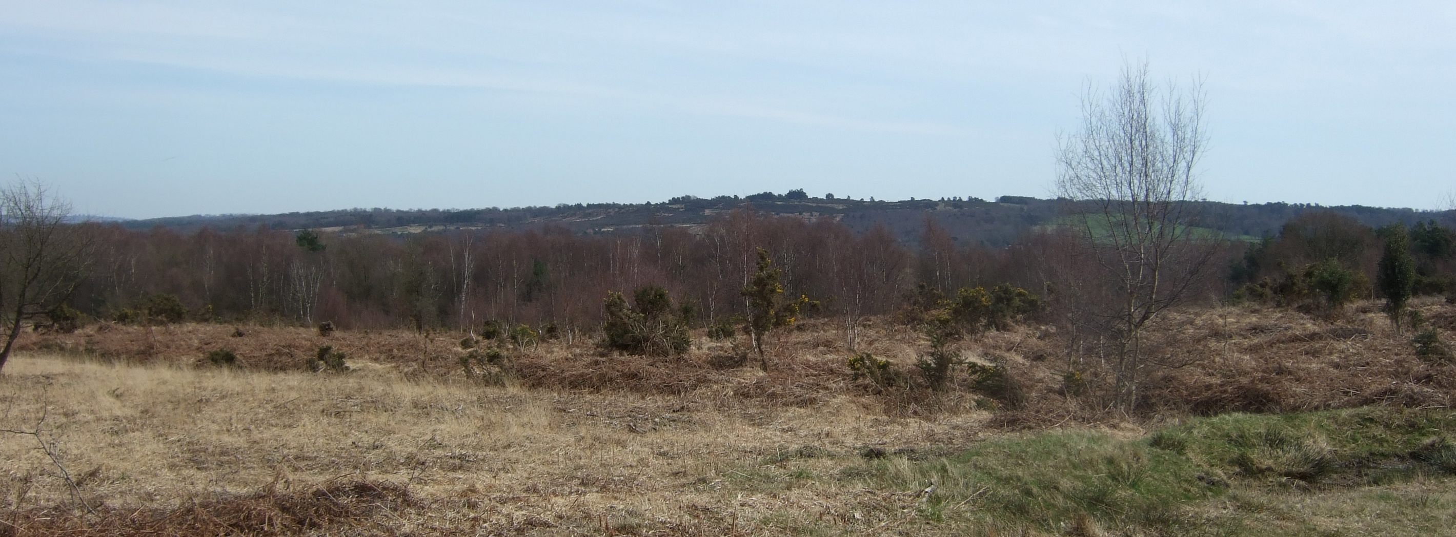 Kings Standing, Ashdown Forest, East Sussex viewed from near Colemans Hatch Road.